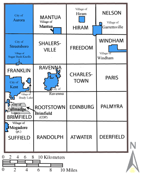 Map of Portage County, Ohio with municipal and township labels. Municipalities in blue; census-designated places in gray; townships in white.